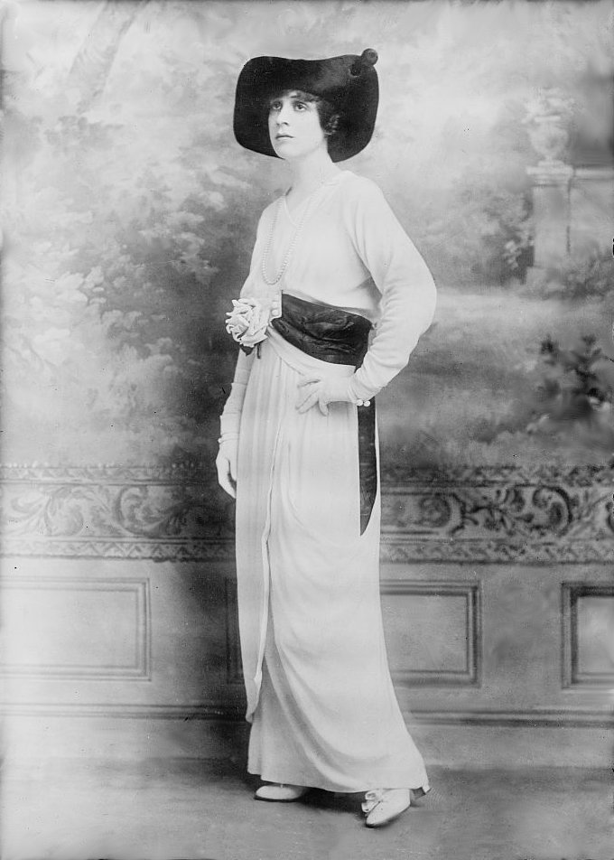 Bain News Service,, publisher. Jane Cowl [between ca. 1910 and ca. 1915] 1 negative : glass ; 5 x 7 in. or smaller. Notes: Title from unverified data provided by the Bain News Service on the negatives or caption cards. Forms part of: George Grantham Bain Collection (Library of Congress). Format: Glass negatives. Repository: Library of Congress, Prints and Photographs Division, Washington, D.C. 20540 USA, General information about the Bain Collection is available at Persistent URL: Call Number: LC-B2- 2814-7